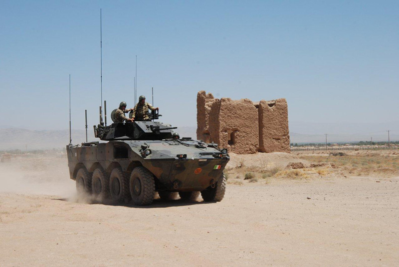 Soldiers of the Italian Army Sassari Mechanized Brigade on patrol in Afghanistan with VBM Freccia.